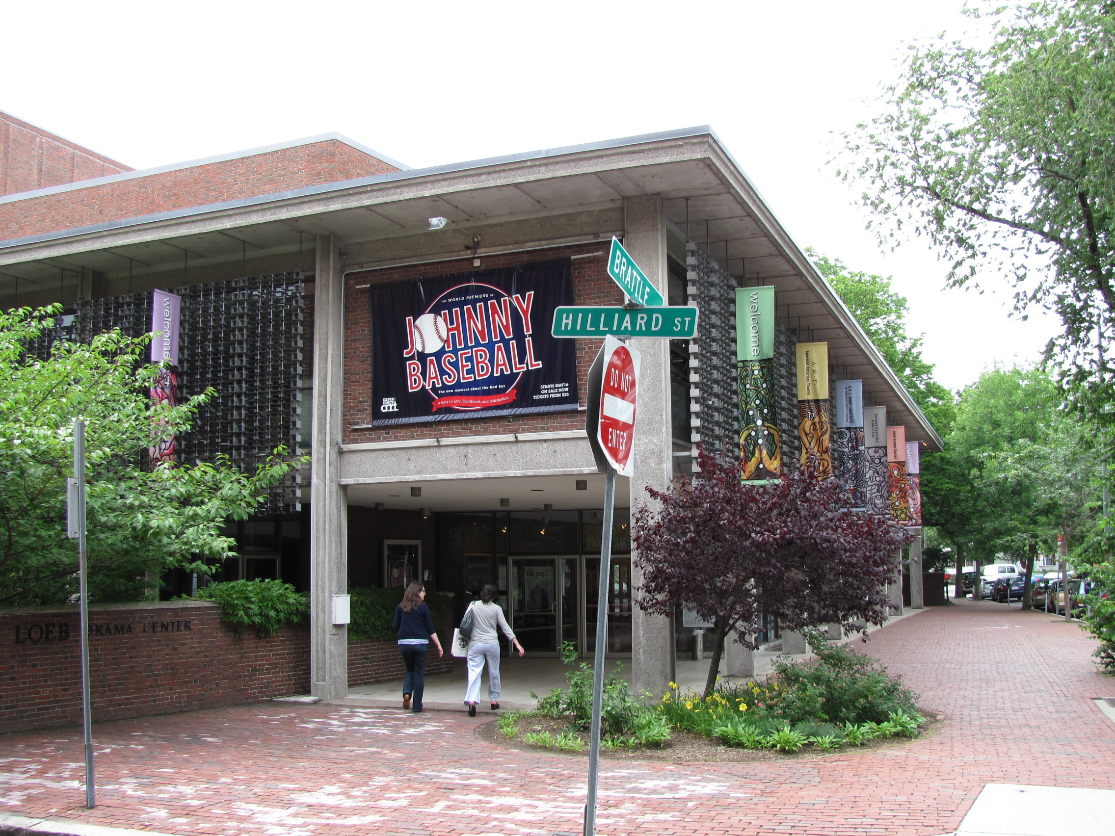 Loeb Drama Center, Cambridge Massachusetts